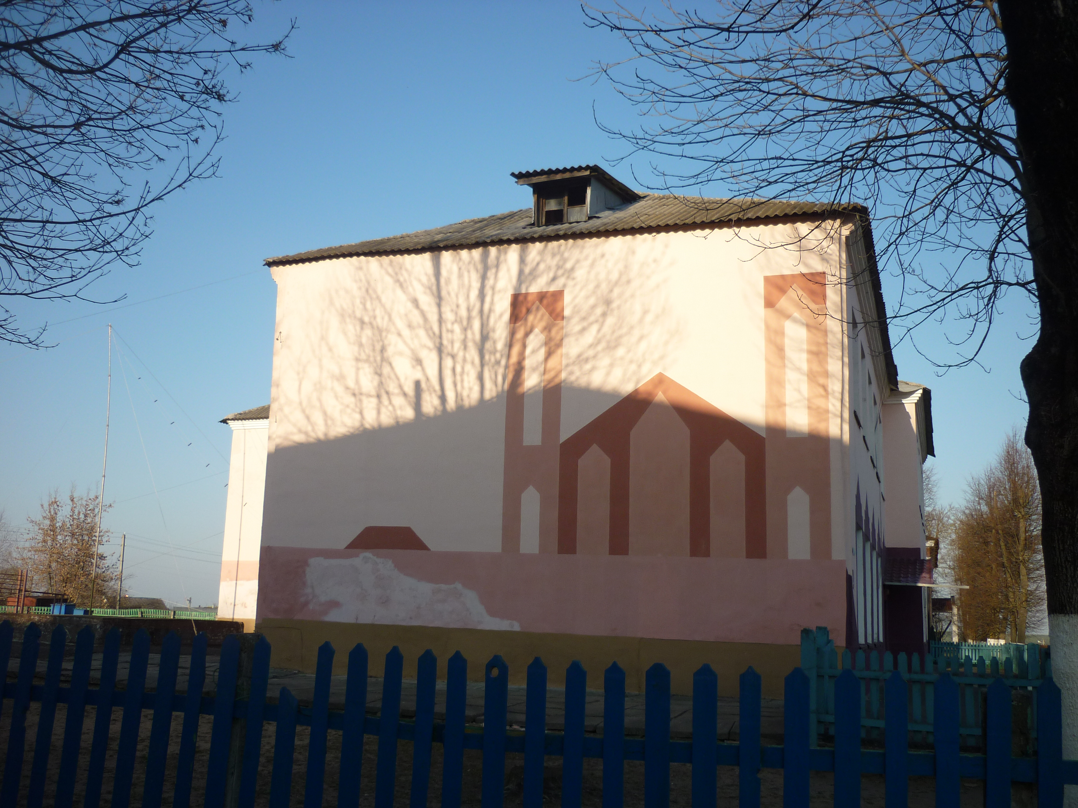 Schematic representation of the Church in Krichev